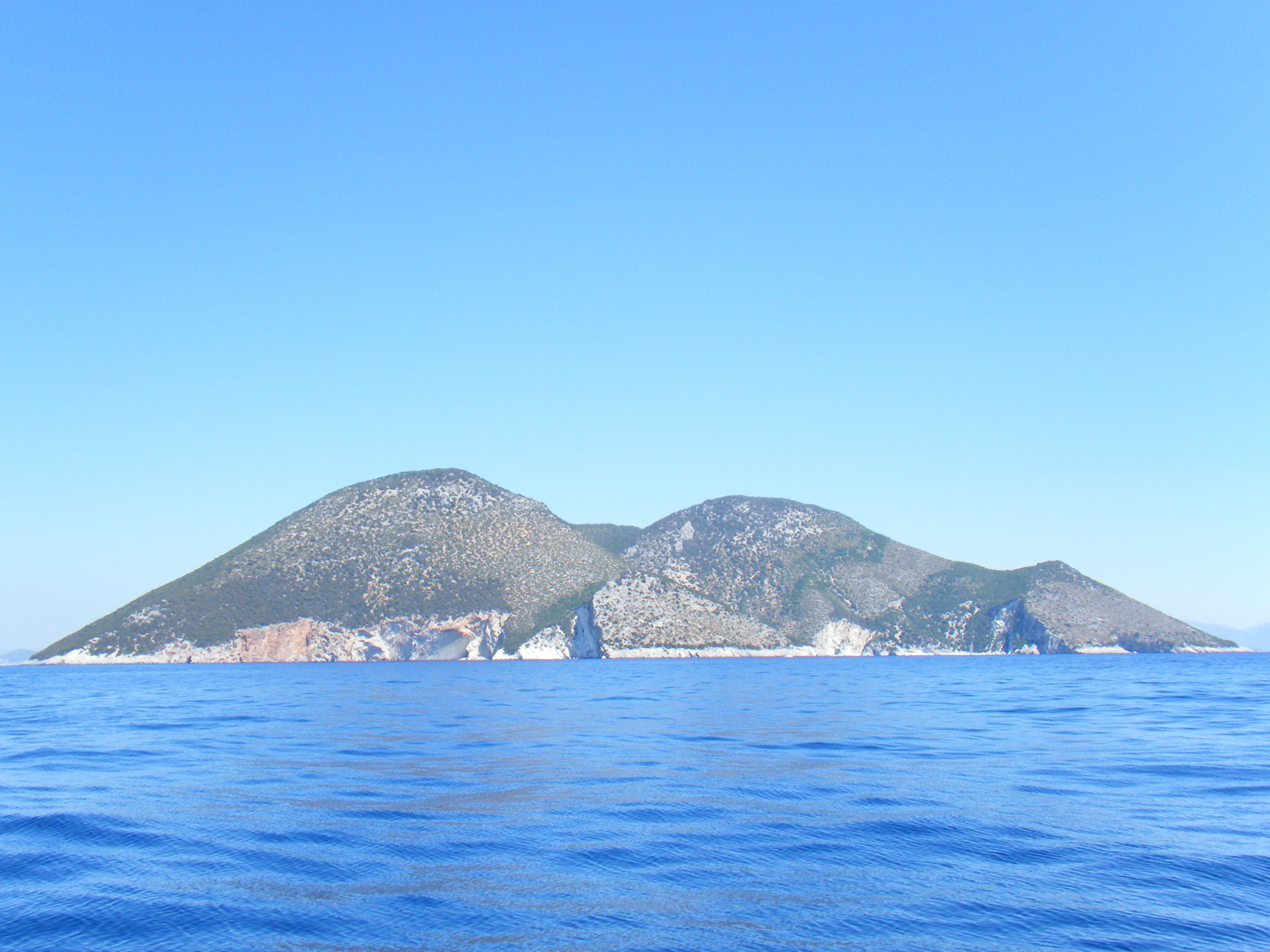 Atokos Island as see from the south